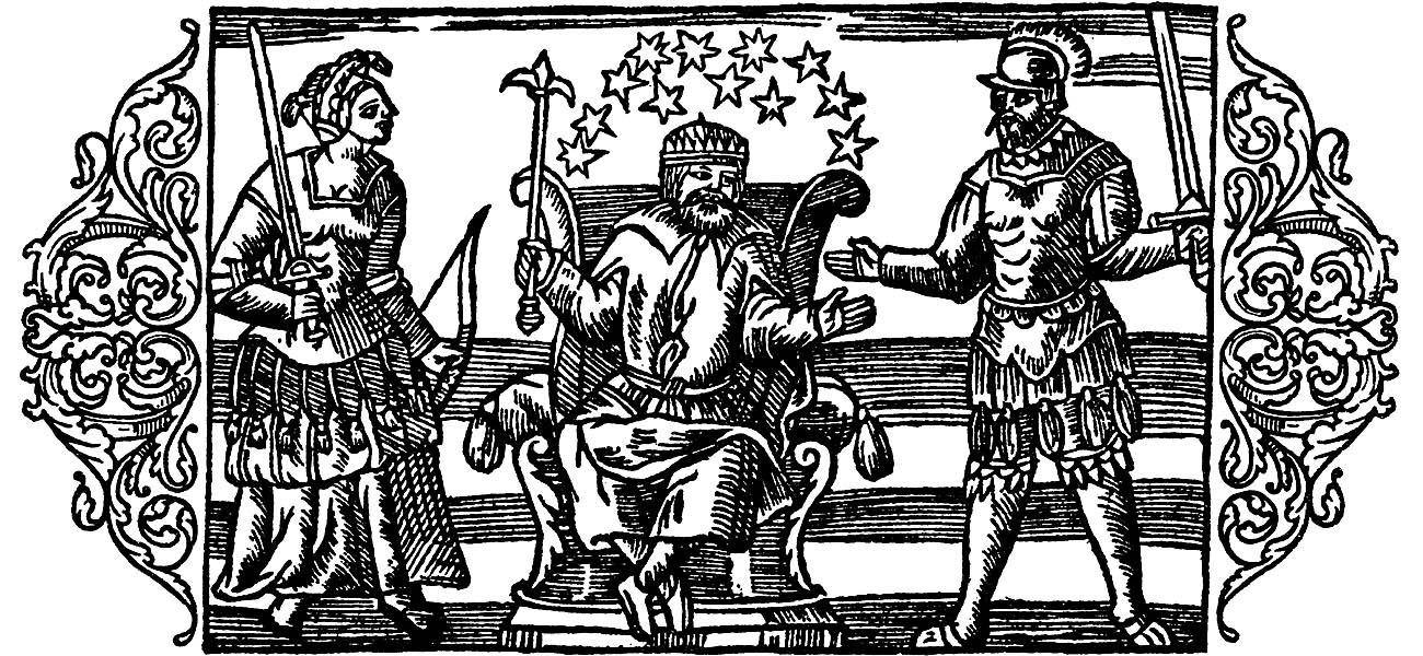 To the left, Frigg with sword and bow; in the middle, Oden (Odin) with crown and spire, sitting on a throne; to the right, Tor (Thor) heavily armed.